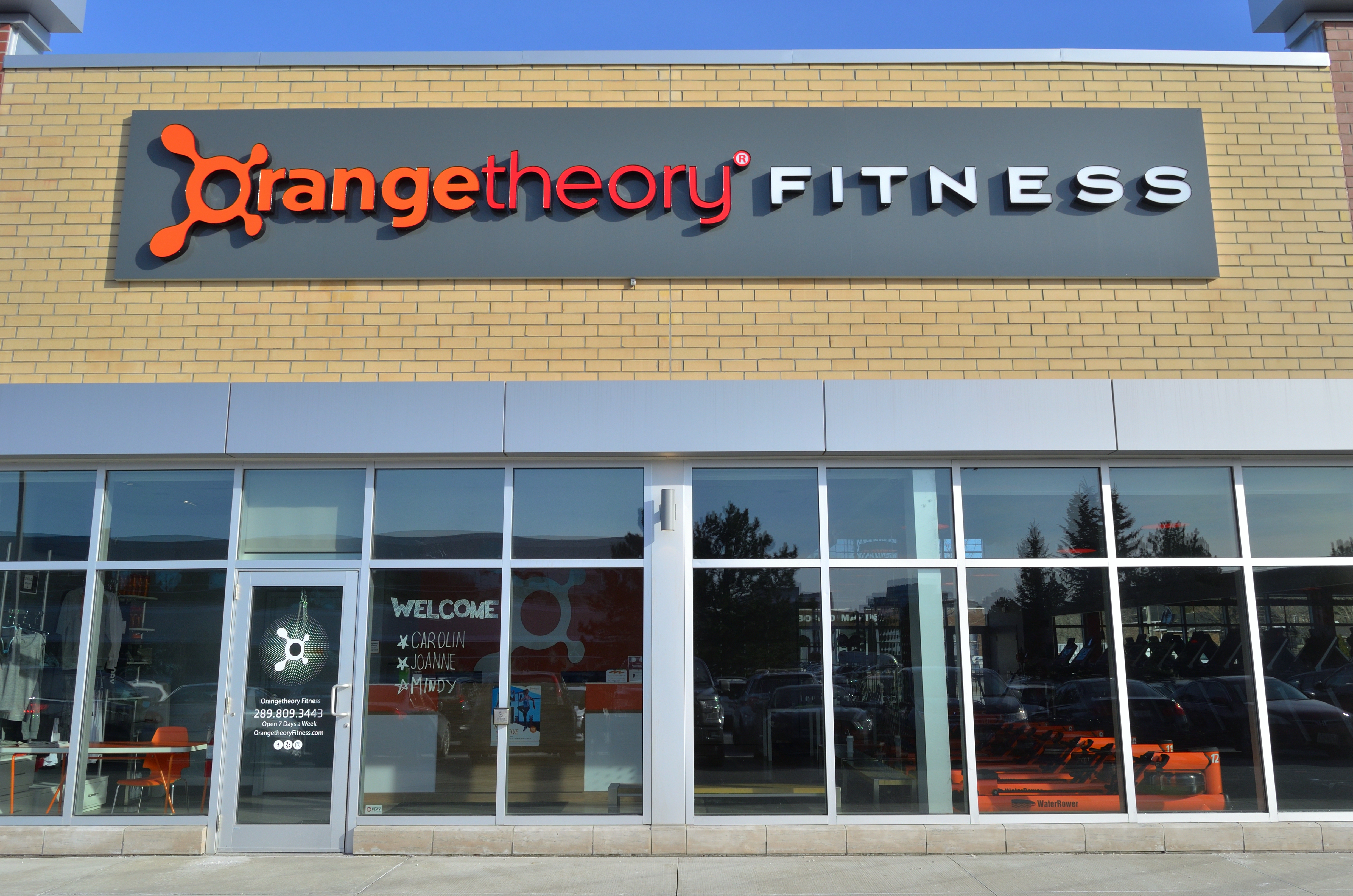 Orangetheory Fitness - Address: 8630 Woodbine Ave, Markham, ON L3R 4X8